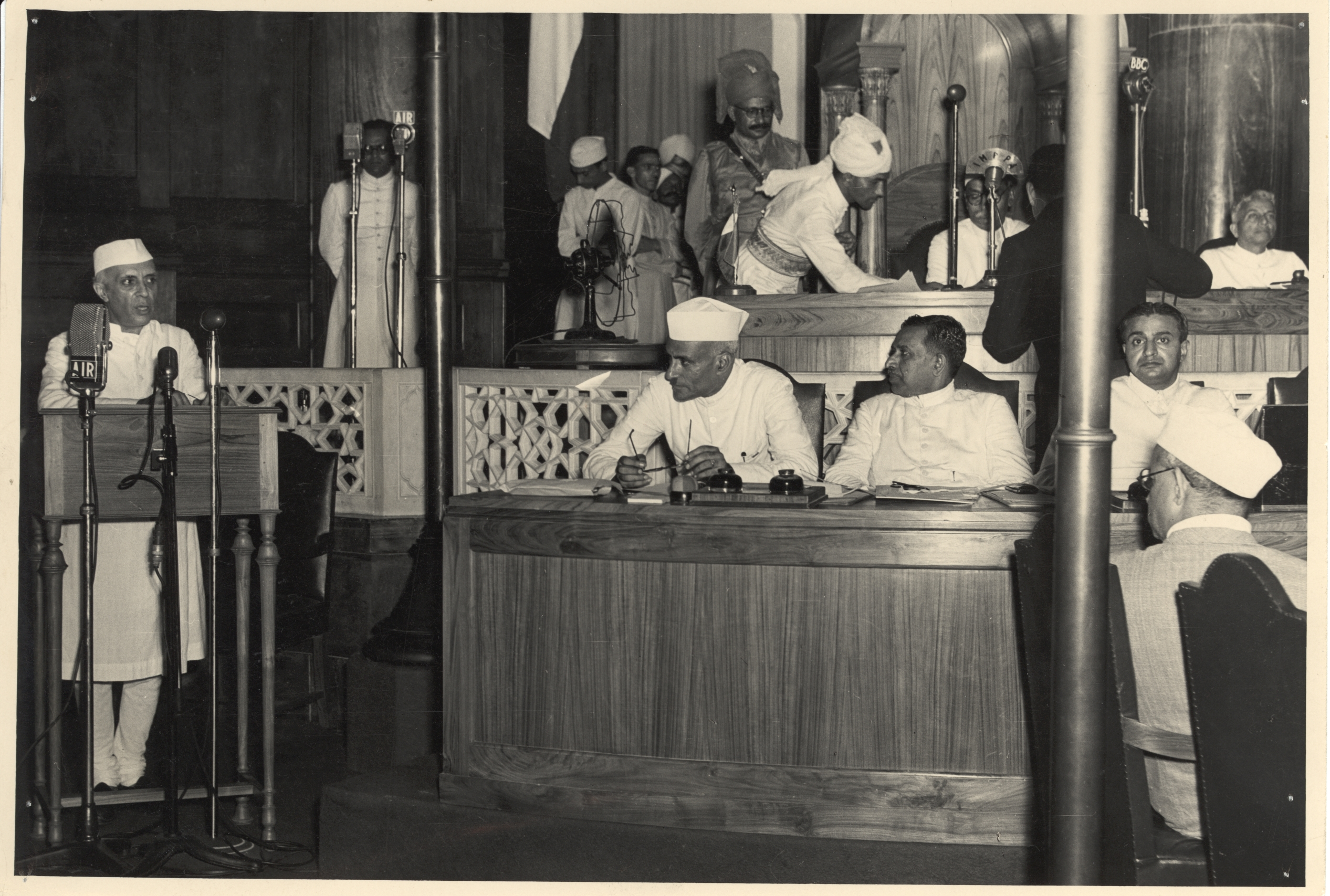 Jawaharlal Nehru delivering his "tryst with destiny" speech on the midnight of 15 August 1947.